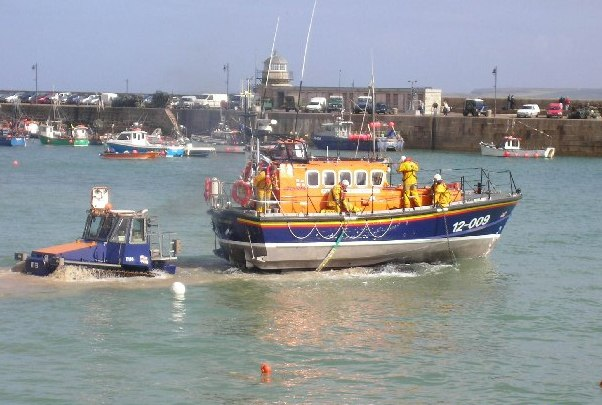 Lifeboat launch. The St. Ives Lifeboat on its launching trailer is propelled across the harbour by its tractor prior to being freed into deeper water